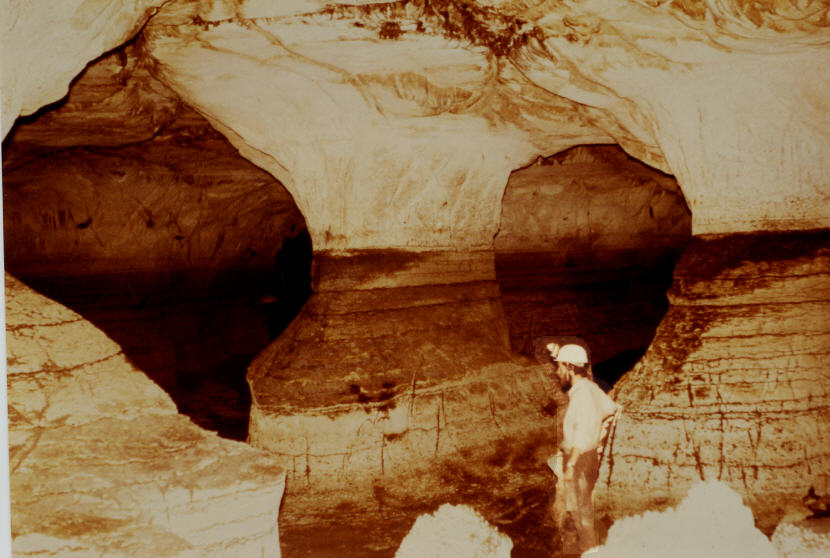 Chamber of Columns, Sof Omar Caves, Ethopia 1972 British Speleological Expedition to Ethopia